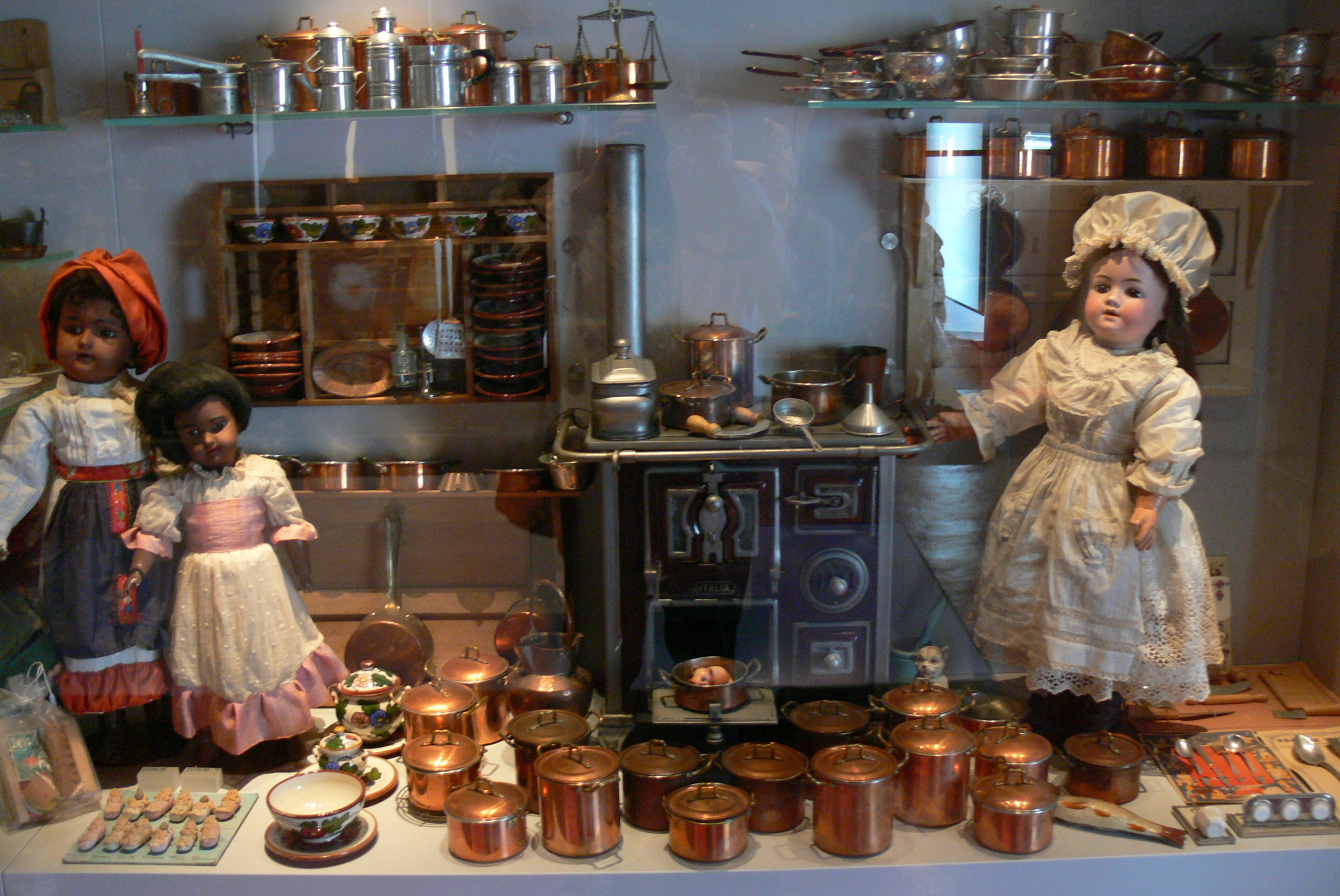 Angera castle ( Varese ). Doll museum - Doll´s kitchen.